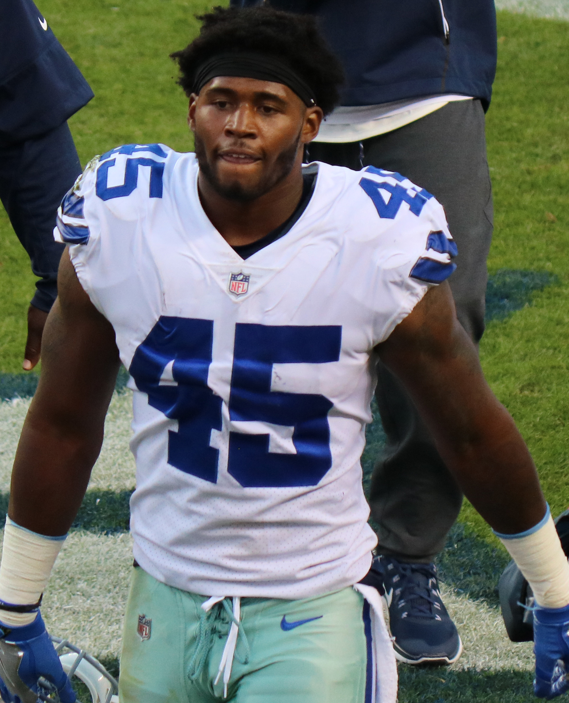 Rod Smith, a player on the National Football League.